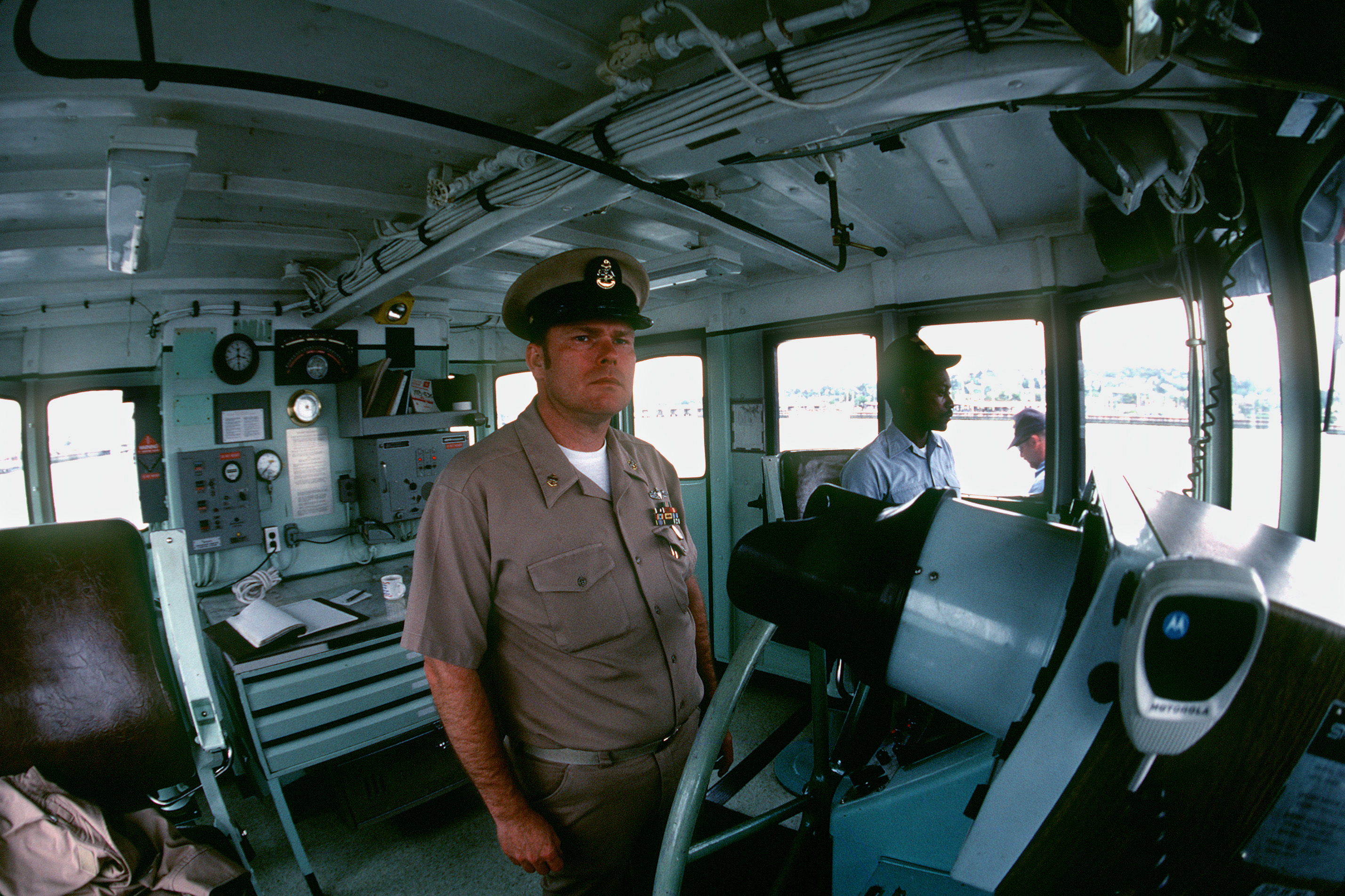 A chief petty officer stands in the pilot house of a YTB 760 class large harbor tug as preparations are made for towing the nuclear-powered attack submarine ex-USS NAUTILUS (SSN 571). The NAUTILUS is being transferred to Naval Submarine Base, New London, Connecticut.